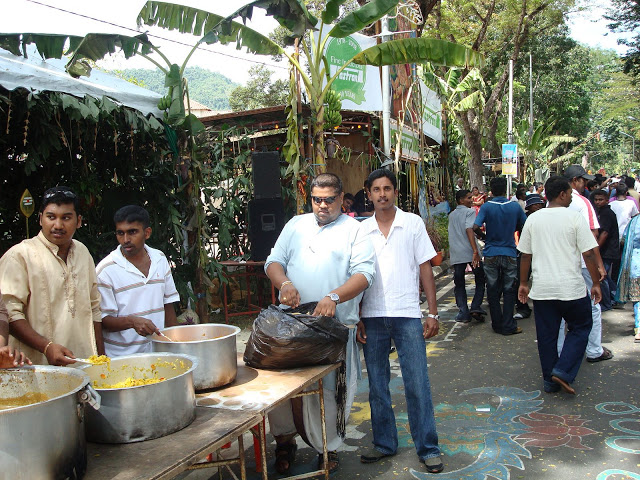 hindu